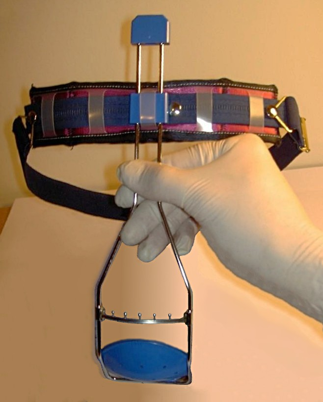 Orthodontist, own photo, taken with own camera, of preparing facemask for patient, source on my C drive